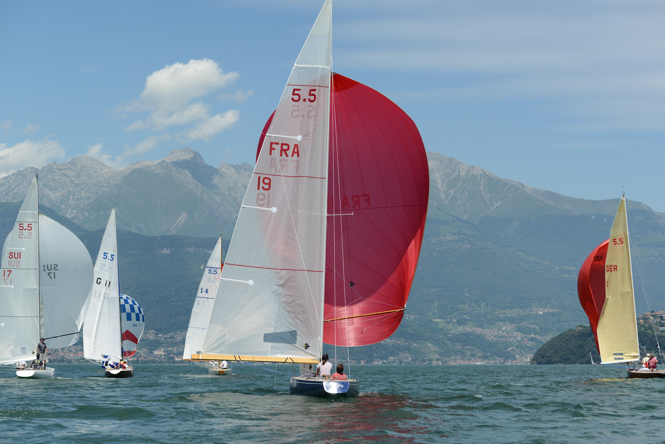 5.5 Metre at Lake Como during the Vintage Yachting Games 2012